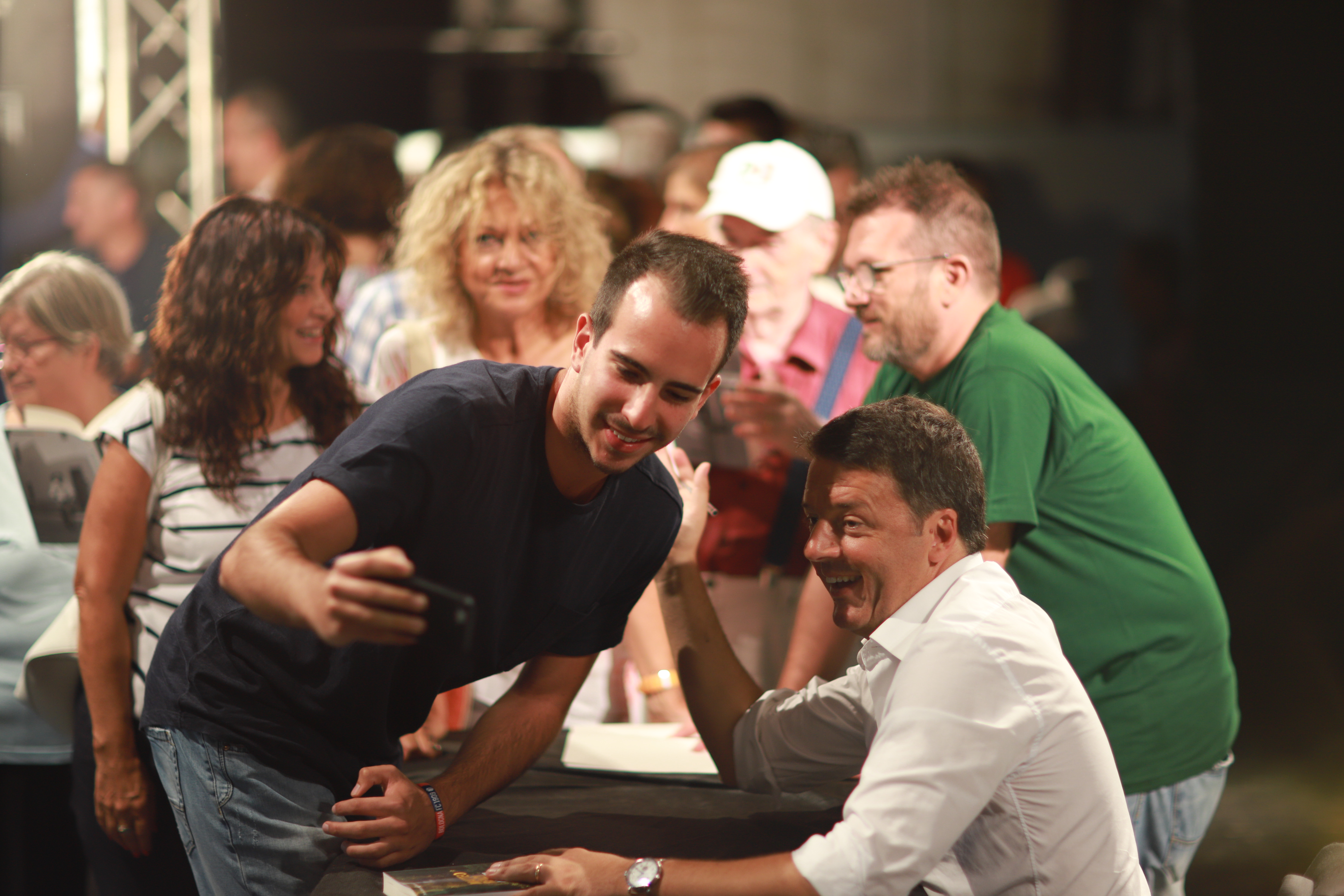 Matteo Renzi in Bologna